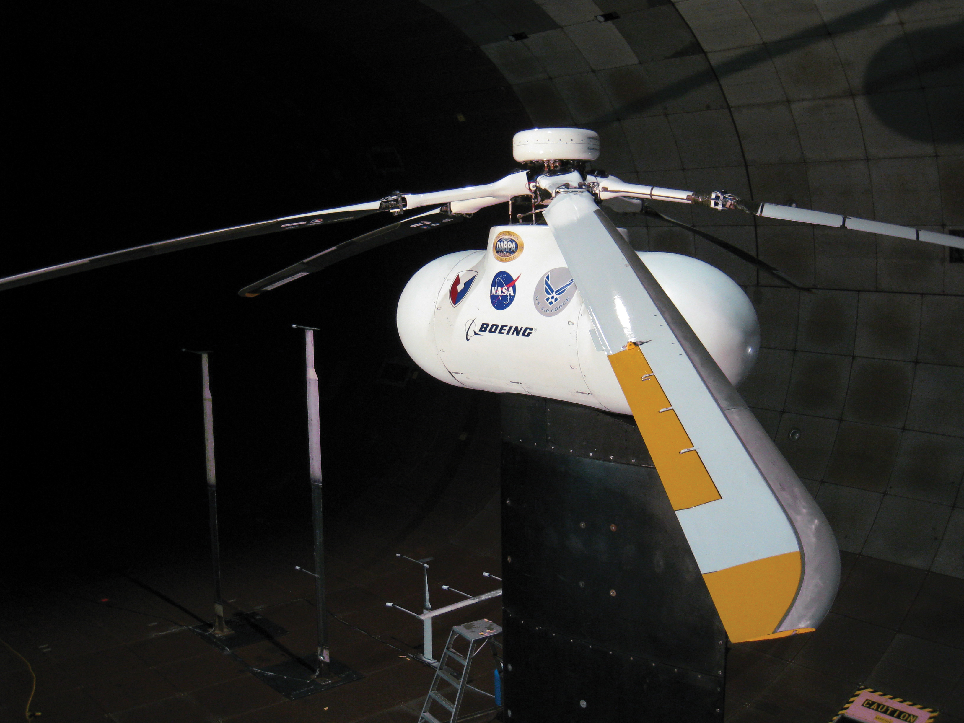 Helicopters today are considered a loud, bumpy and inefficient mode for day-to-day domestic travel—best reserved for medical emergencies, traffic reporting and hovering over celebrity weddings. But NASA research into rotor blades made with shape-changing materials could change that view. The solution could lie in rotor blades made with piezoelectric materials that flex when subjected to electrical fields, not unlike the way human muscles work when stimulated by a current of electricity sent from the brain. NASA and the Defense Advanced Research Projects Agency, also known as DARPA, the U.S. Army, and The Boeing Company have spent the past decade experimenting with smart material actuated rotor, or SMART, technology, which includes the piezoelectric materials. Tests in a NASA wind tunnel of this SMART rotor hub confirm the ability of advanced helicopter-blade active control strategies to reduce vibrations and noise.